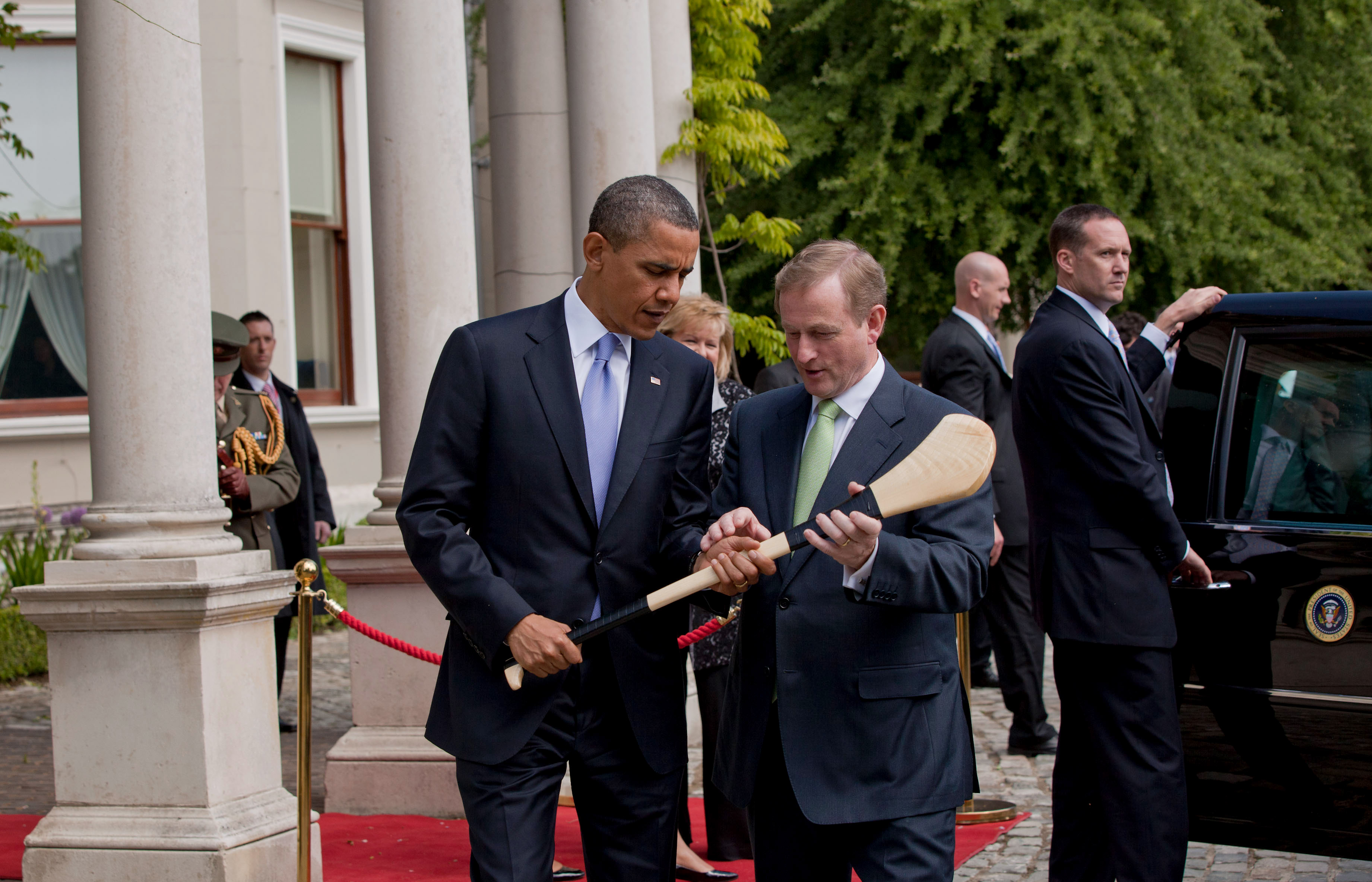 Taoiseach Enda Kenny presents U.S. President Barack Obama with a hurley at Farmleigh in Dublin, Ireland on 23 May 2011.